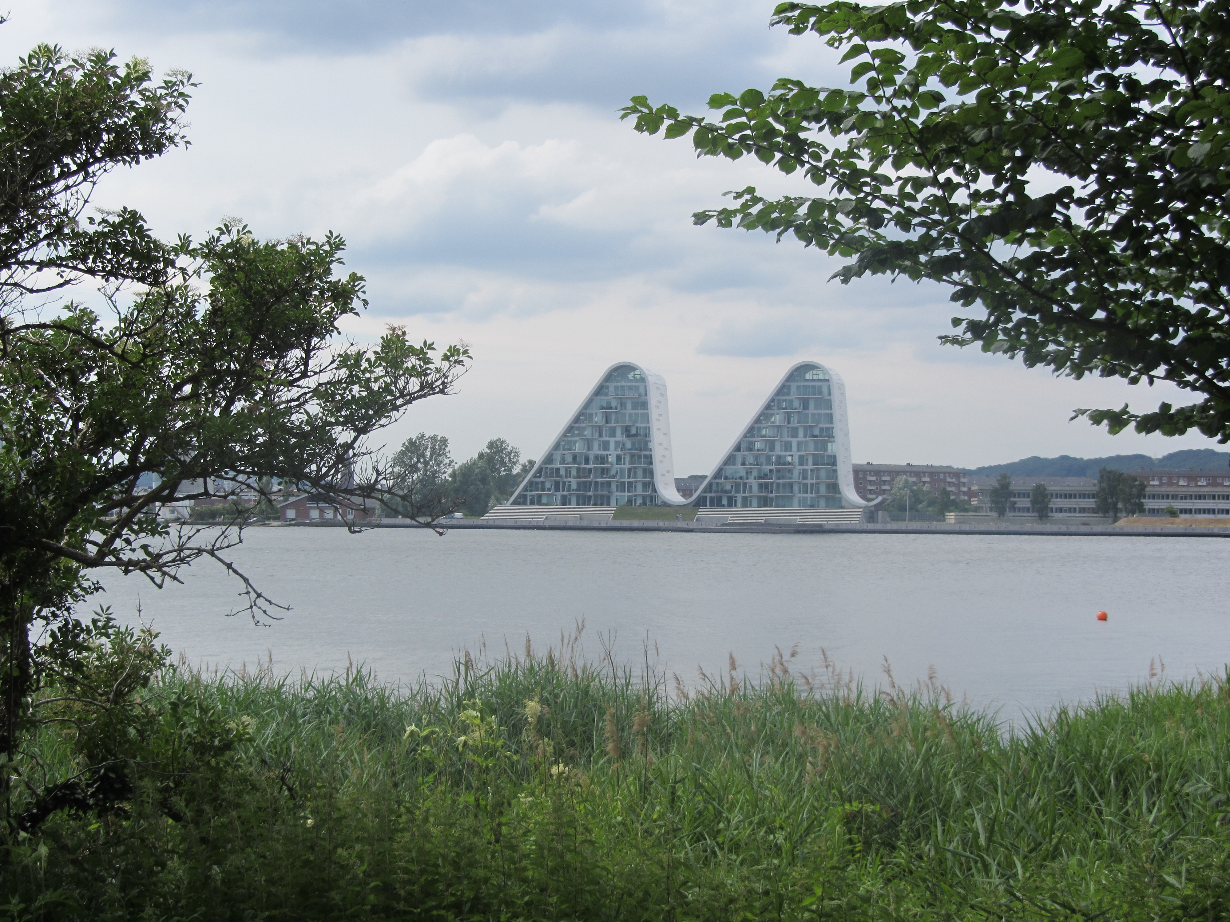 The Wave in Vejle, Denmark